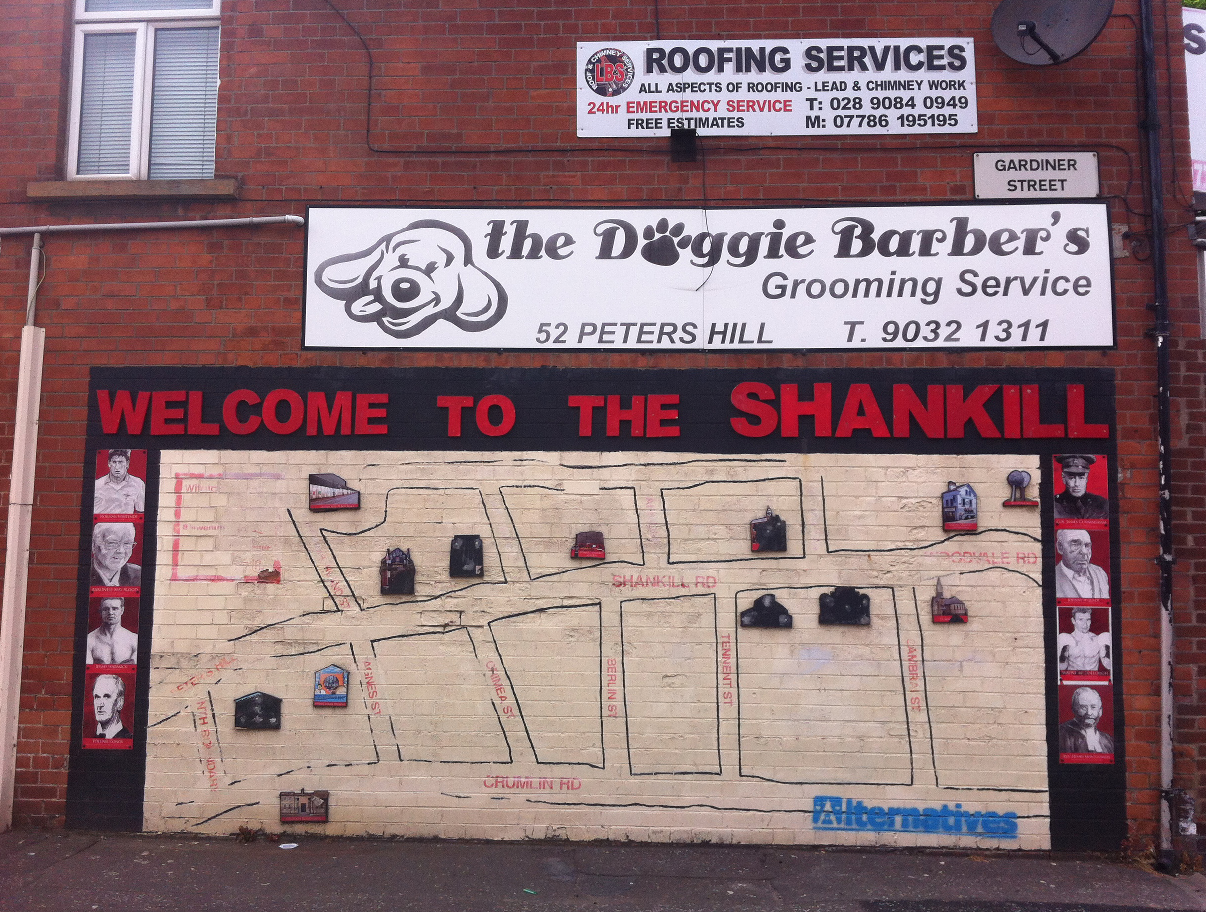 Welcome to the Shankill